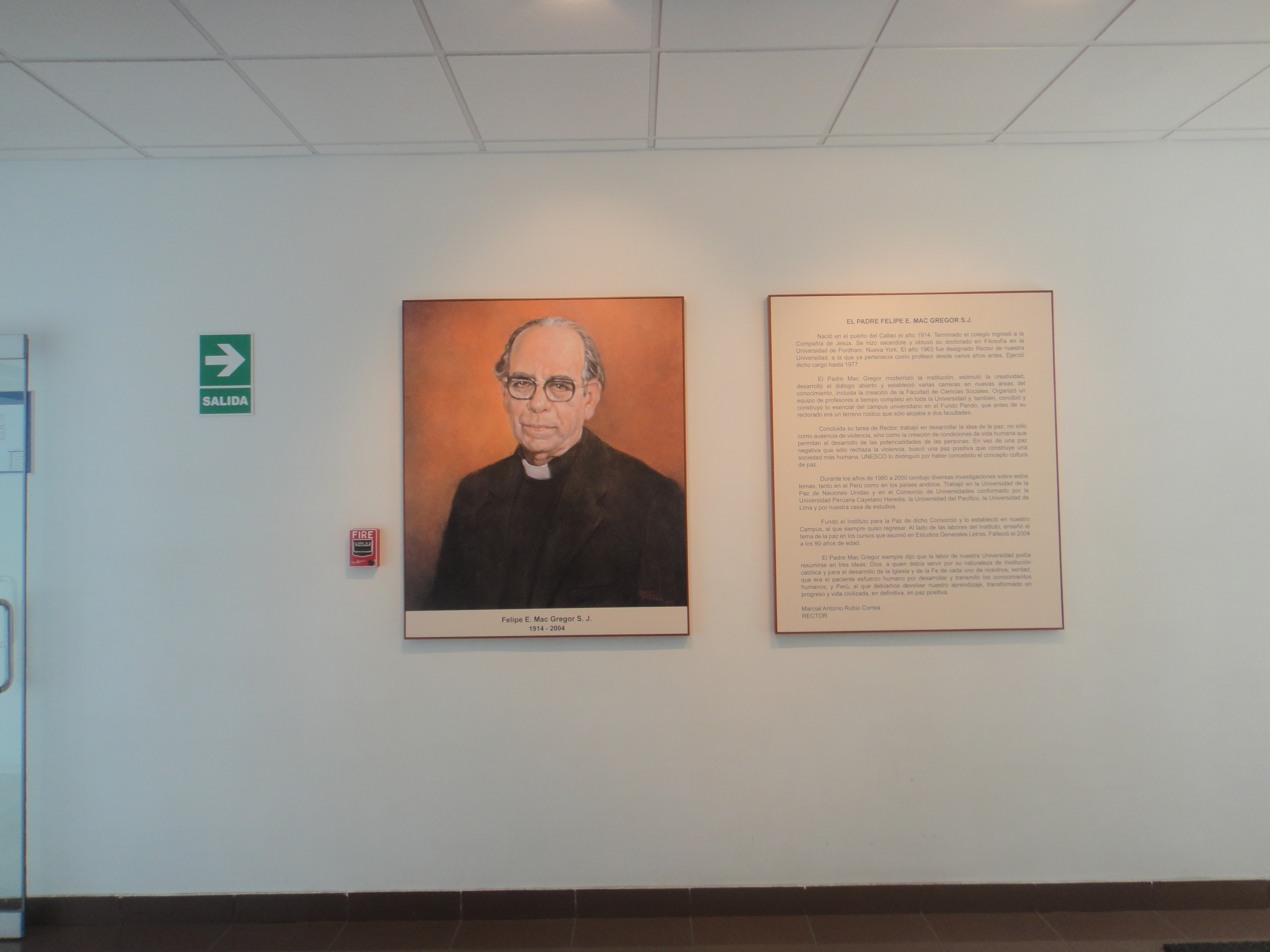 Painting of Felipe Mac Gregor in building of same name in PUCP, Lima-Peru.